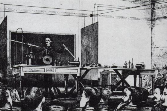 Nikola Tesla demonstrating wireless transmission of power and high frequency energy at Columbia College, New York, in 1891. The two metal sheets were connected to his Tesla coil oscillator, which applied a high voltage oscillating at radio frequency. The electric field ionized the gas in the long, partially evacuated Geissler tubes he is holding (similar to modern neon lights), causing them to emit light without wires. Interlingua: Tesla demonstrante transmissiones sin filos durante su lection super alte frequentias e potential de 1891. Post ulterior recercas, Tesla presentava le fundamentos del radio in 1893.